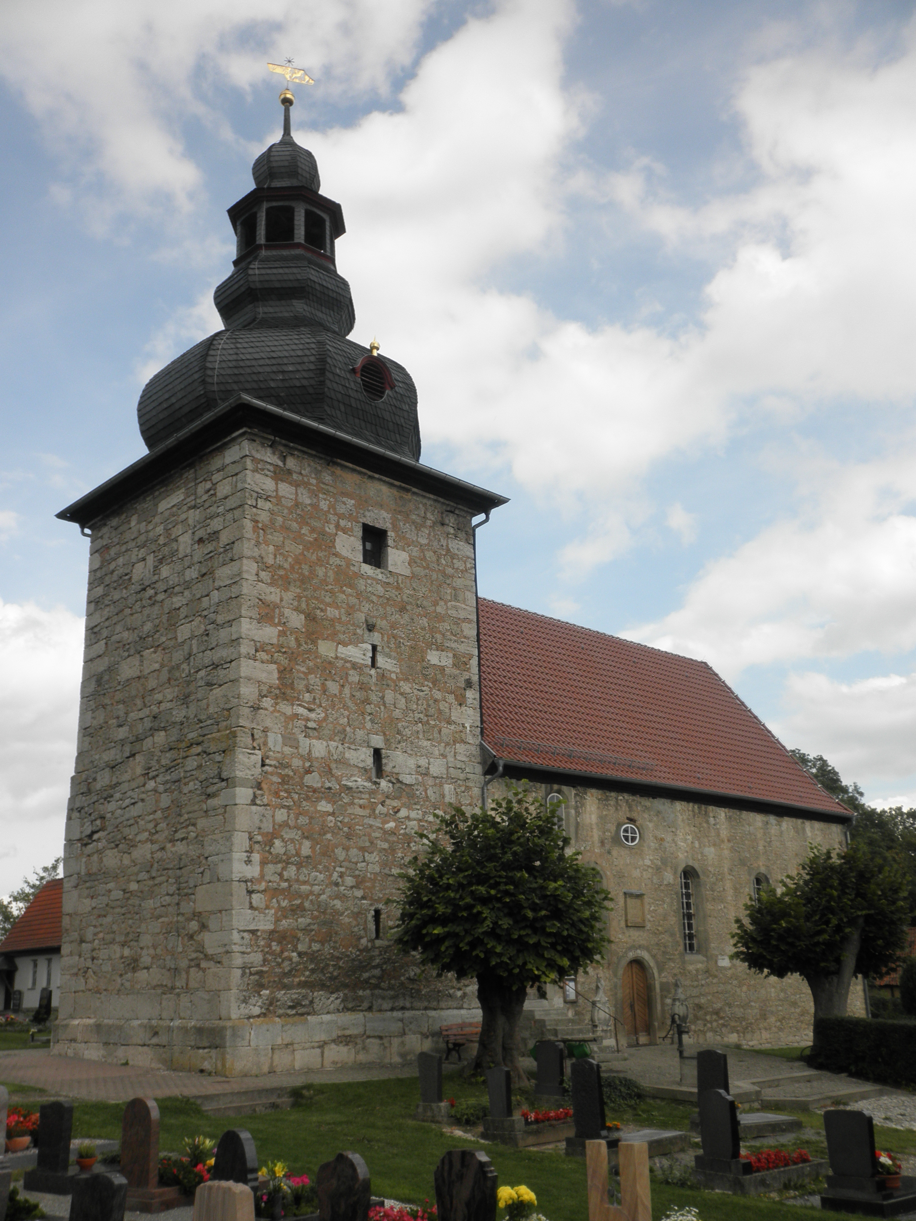 Church in Dörna in Thuringia